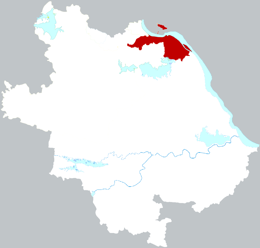 Location of Xisaishan district in Huangshi city, China